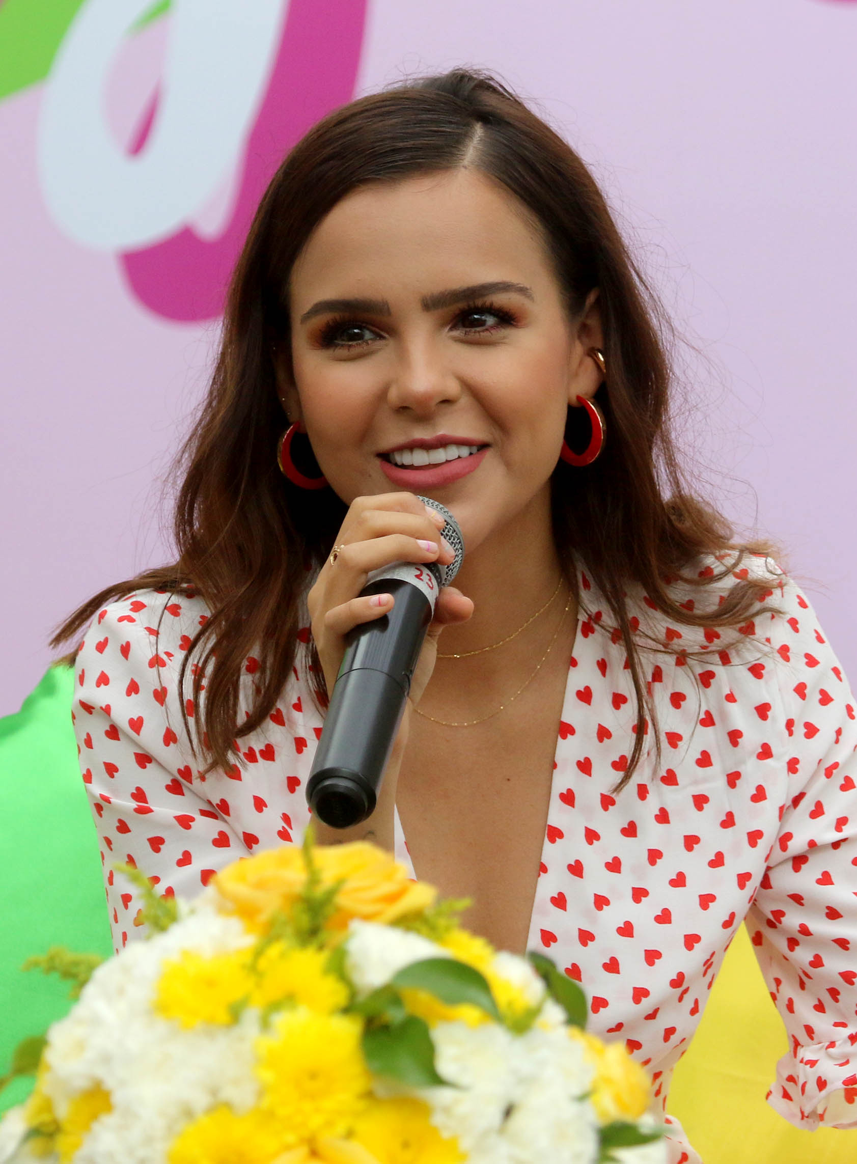 Guayaquil, miércoles 20 de junio del 2018 (Andes).-Mariand Castrejón, más conocida como Yuya, es considerada la vlogger mujer #1 del mundo, con cerca de 20 millones de seguidores, estuvo promocionando una marca de shampoo en Guayaquil.Foto:César Muñoz/Andes